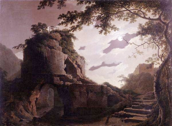 Virgil's Tomb by Moonlight Joseph Wright of Derby